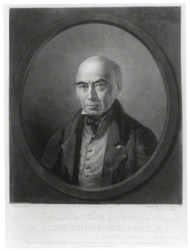 Portrait of Sir John Saunders Sebright (1767–1846), 7th Baronet, English politician and agricultural innovator.